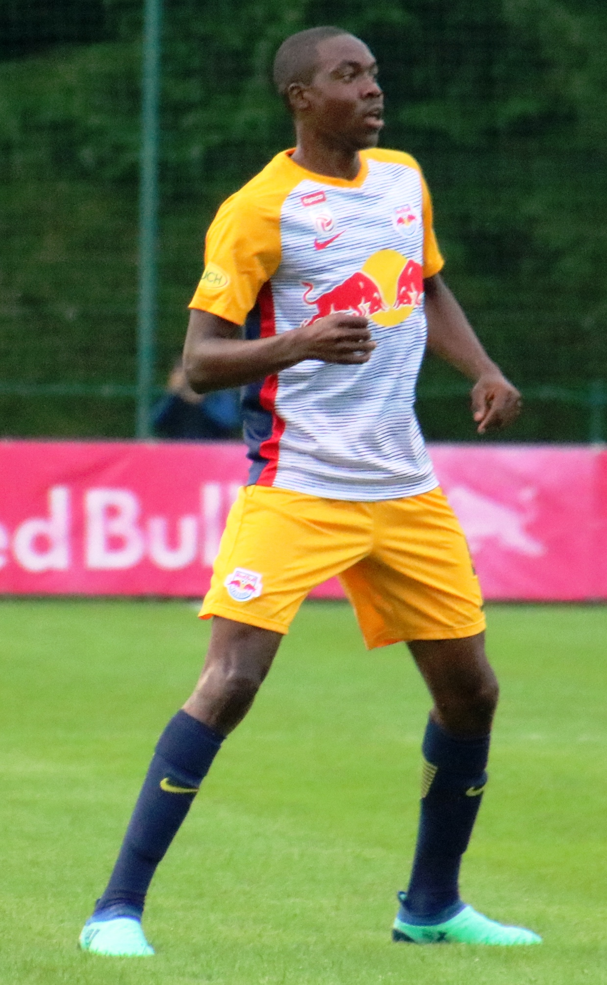 first preseason match 2018/19